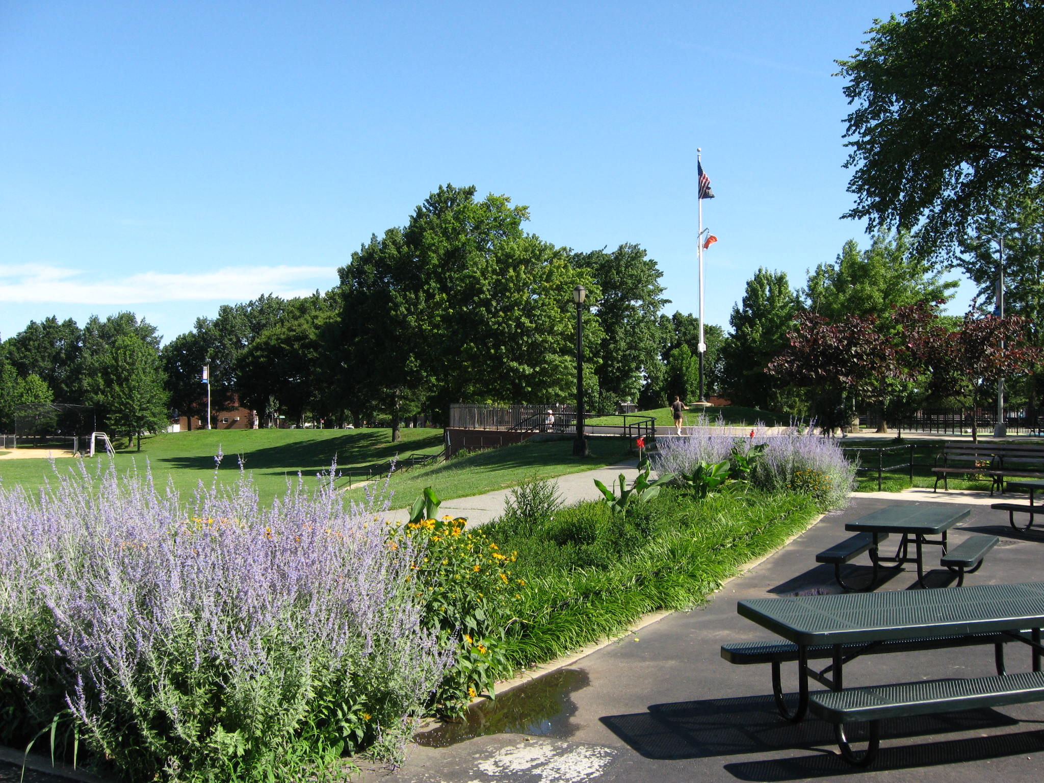 A view of the east end of Juniper Valley Park, Queens, NYC.